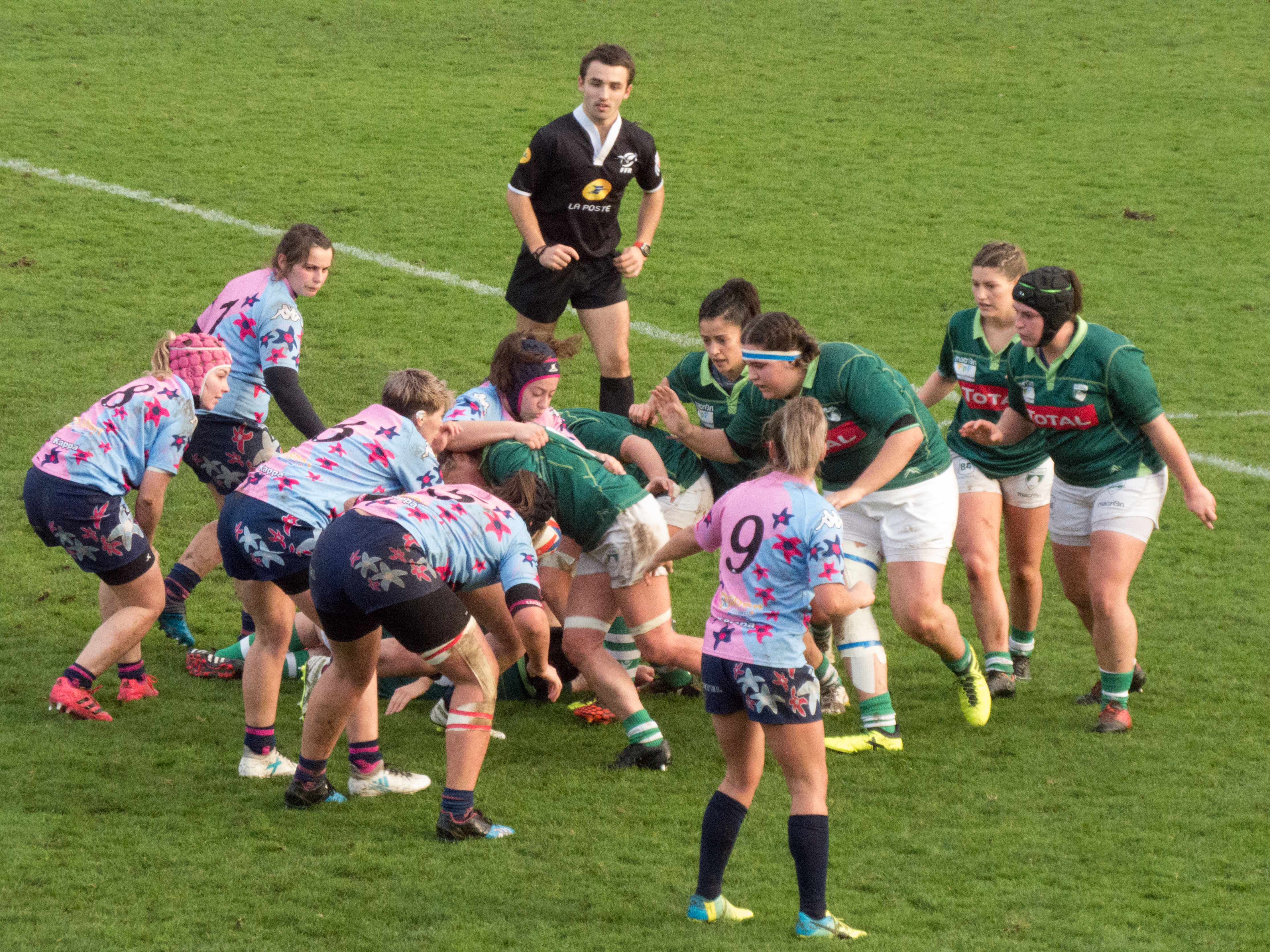 Q46998098 — 17 December 2017, stade Maurice-Boyau. Match between: Pachys de l'US Dax — Q61746595